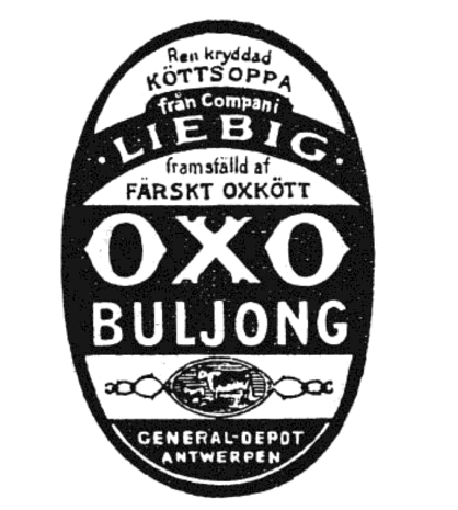 1905 Trademark registered by Liebig's Extract of Meat Company for OXO